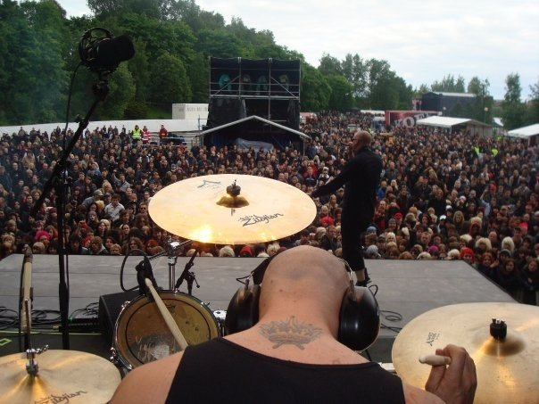 Photo: sparzanza